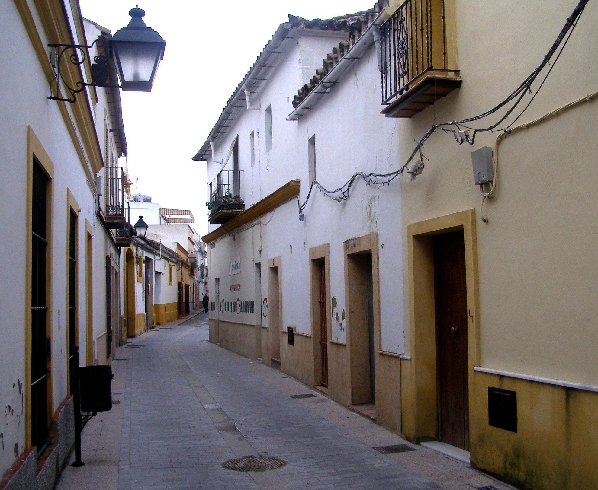 Caldereros St. Jerez